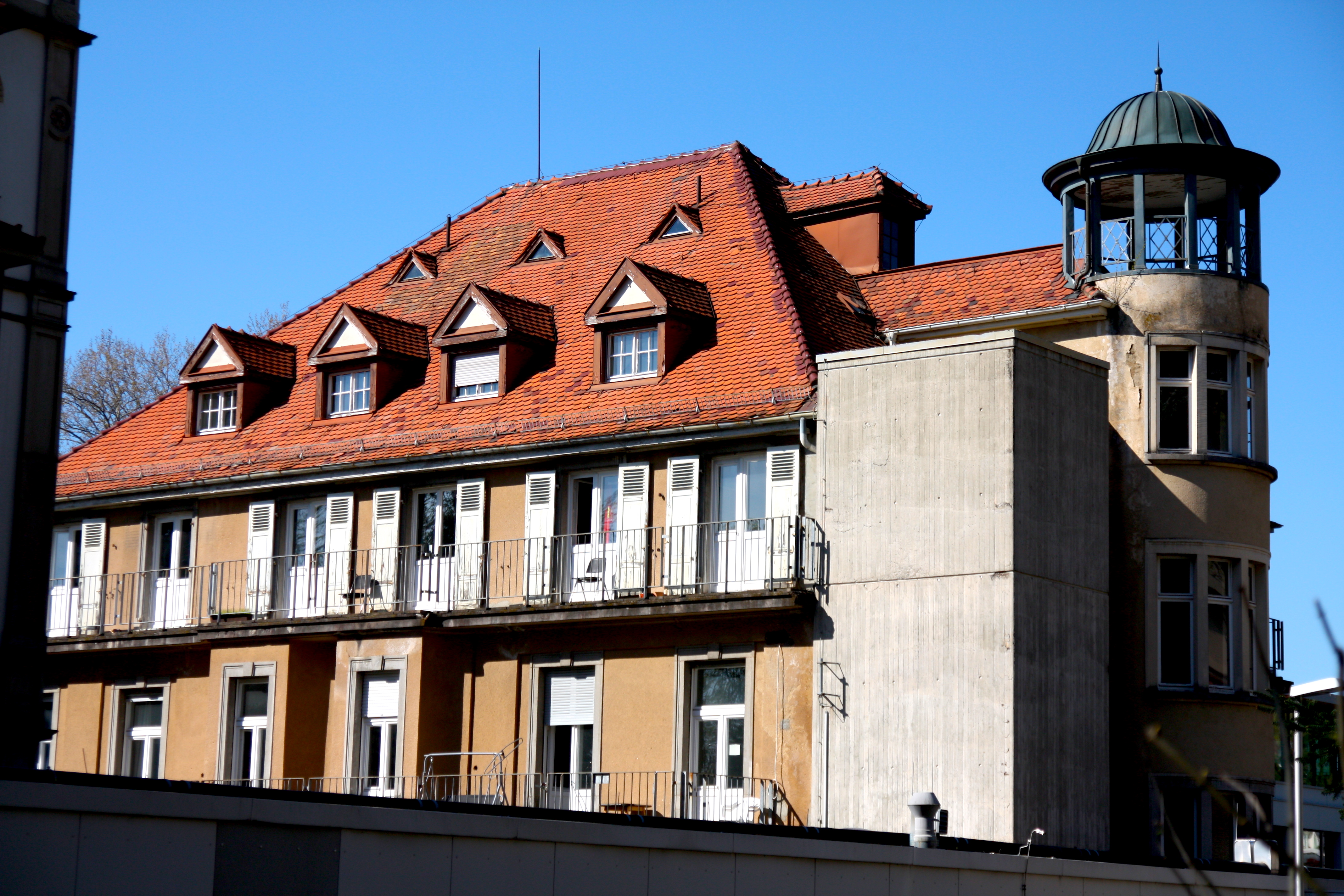 The Bernstein Center Freiburg is Freiburg University's central facility for computational neuroscience and neurodevelopment and resides in Freiburg-Herdern.